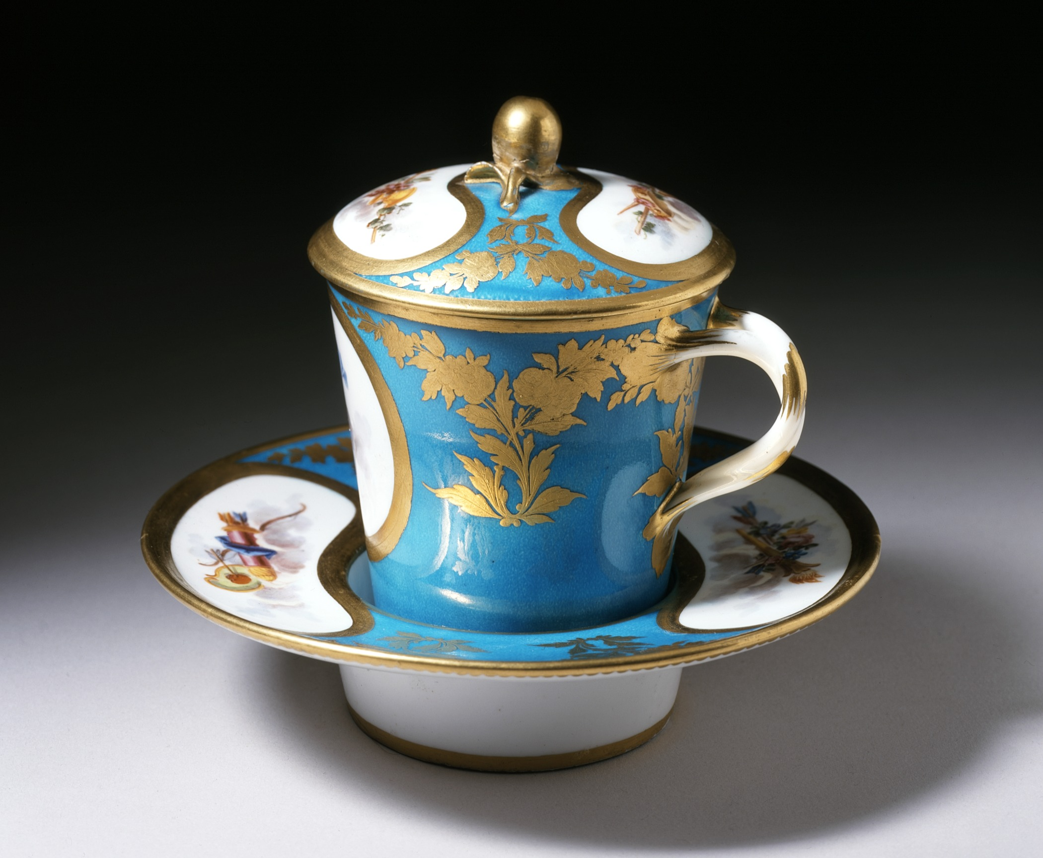 France, Sèvres, circa 1776 Furnishings; Serviceware Porcelain with enamel, gilding, and glaze Gift of Dorothy S. Blankfort (M.80.204.17a-c) Decorative Arts and Design Currently on public view: Hammer Building, floor 3